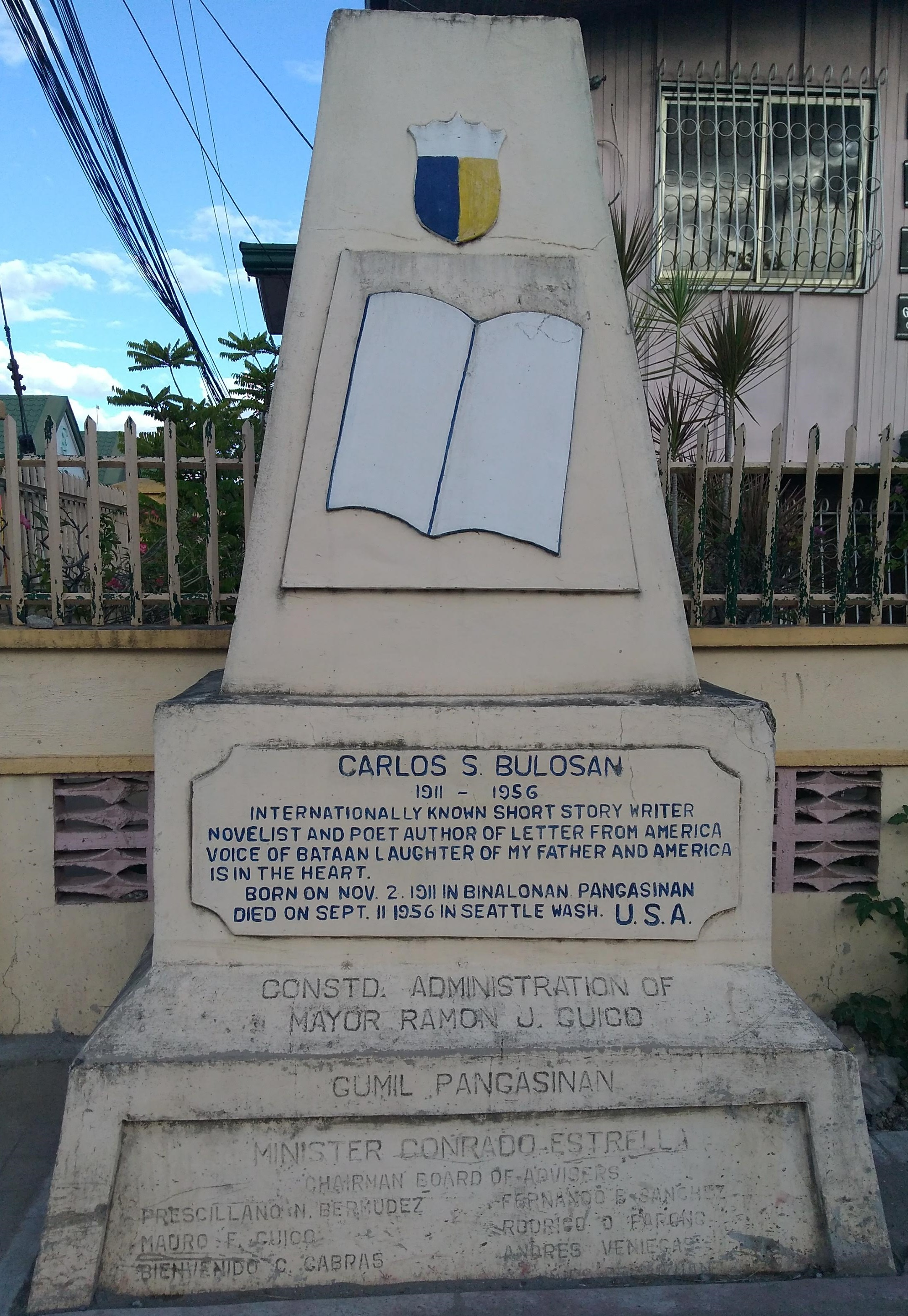 Taken on December 25, 2018, this is a historical marker erected in honor of Carlos Bulosan in Binalonan, Pangasinan. Binalonan is the birthplace of Bulosan.